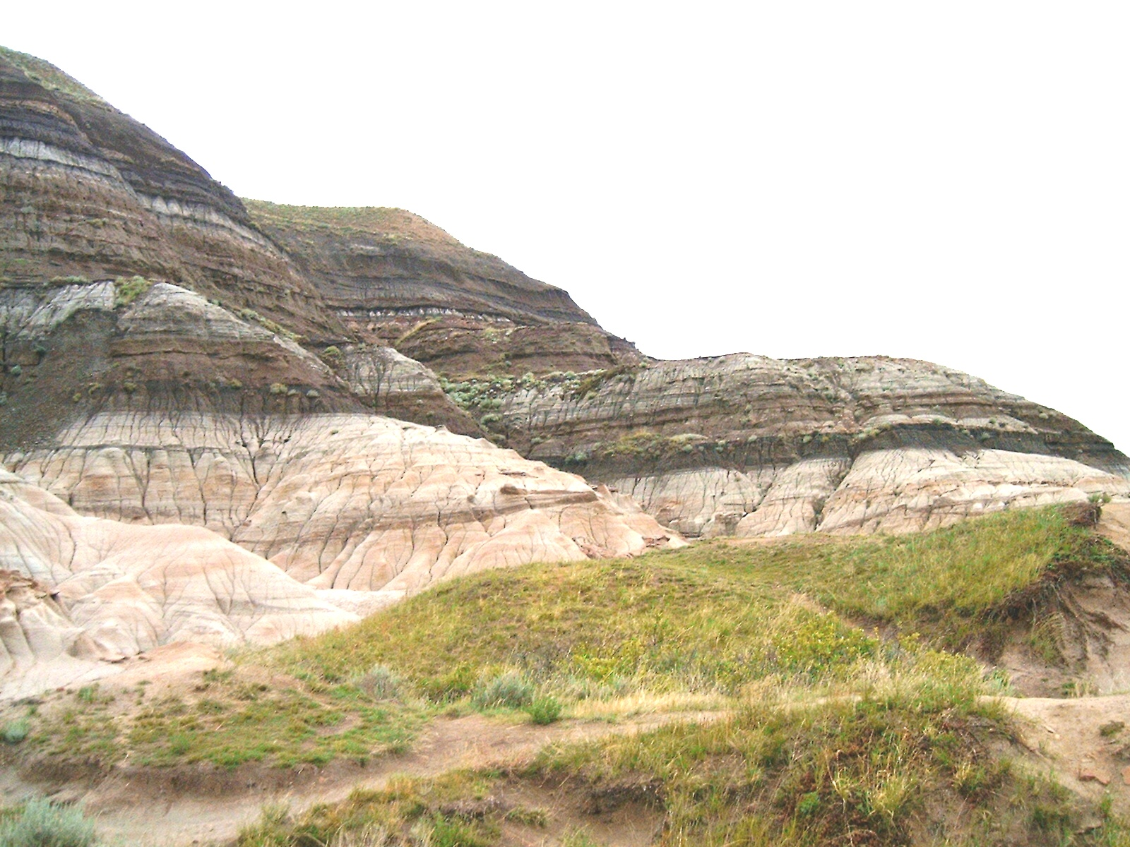 Original description: KT boundary. Badlands near Drumheller, Alberta where erosion has exposed the KT boundary.